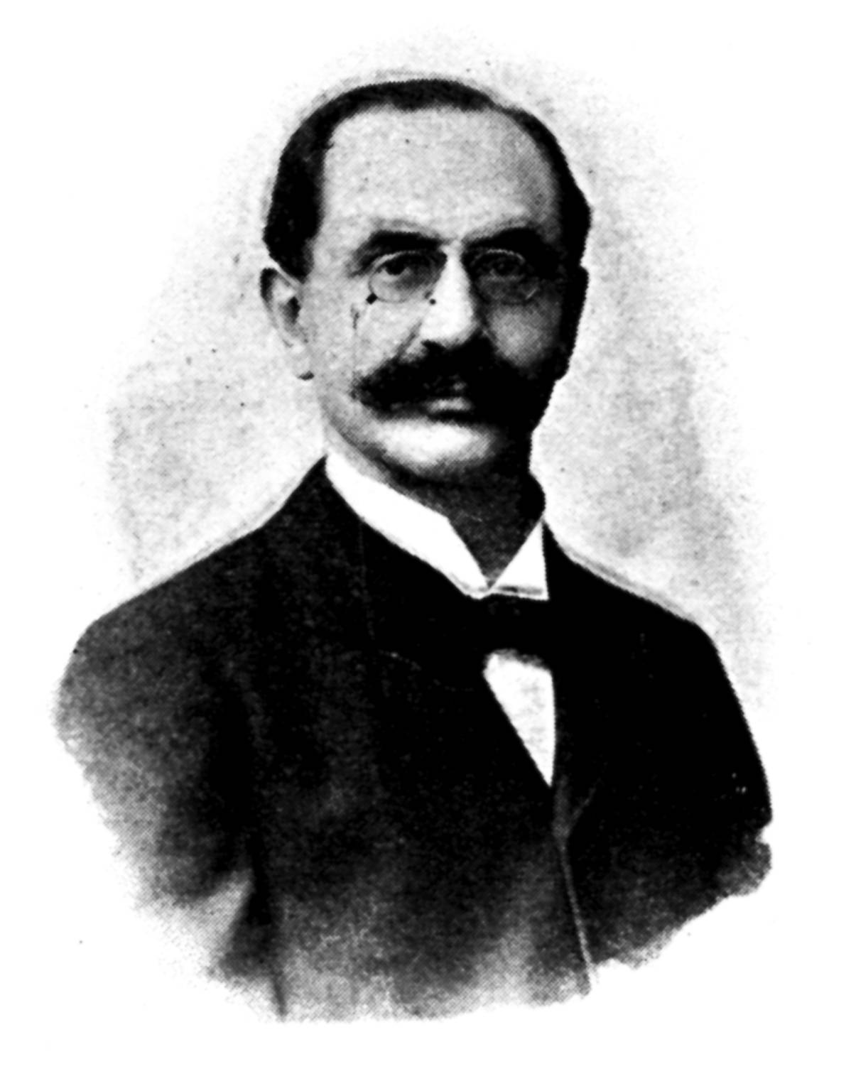 Julius Geppert (1856-1937), German physician